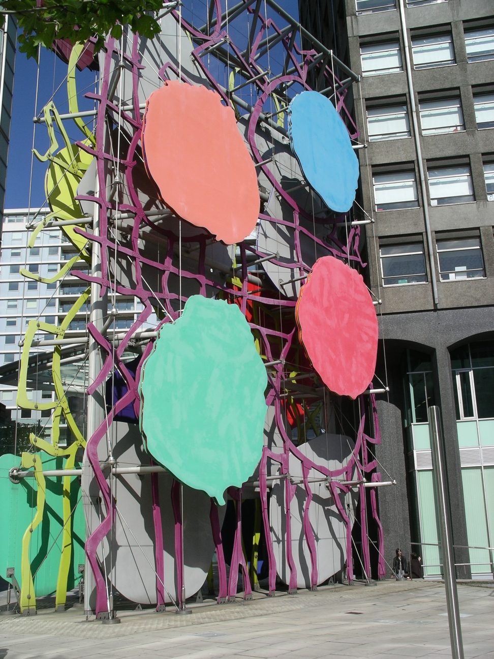 Public art at Victoria, London